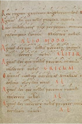 Agnus Dei, Notker Psalter